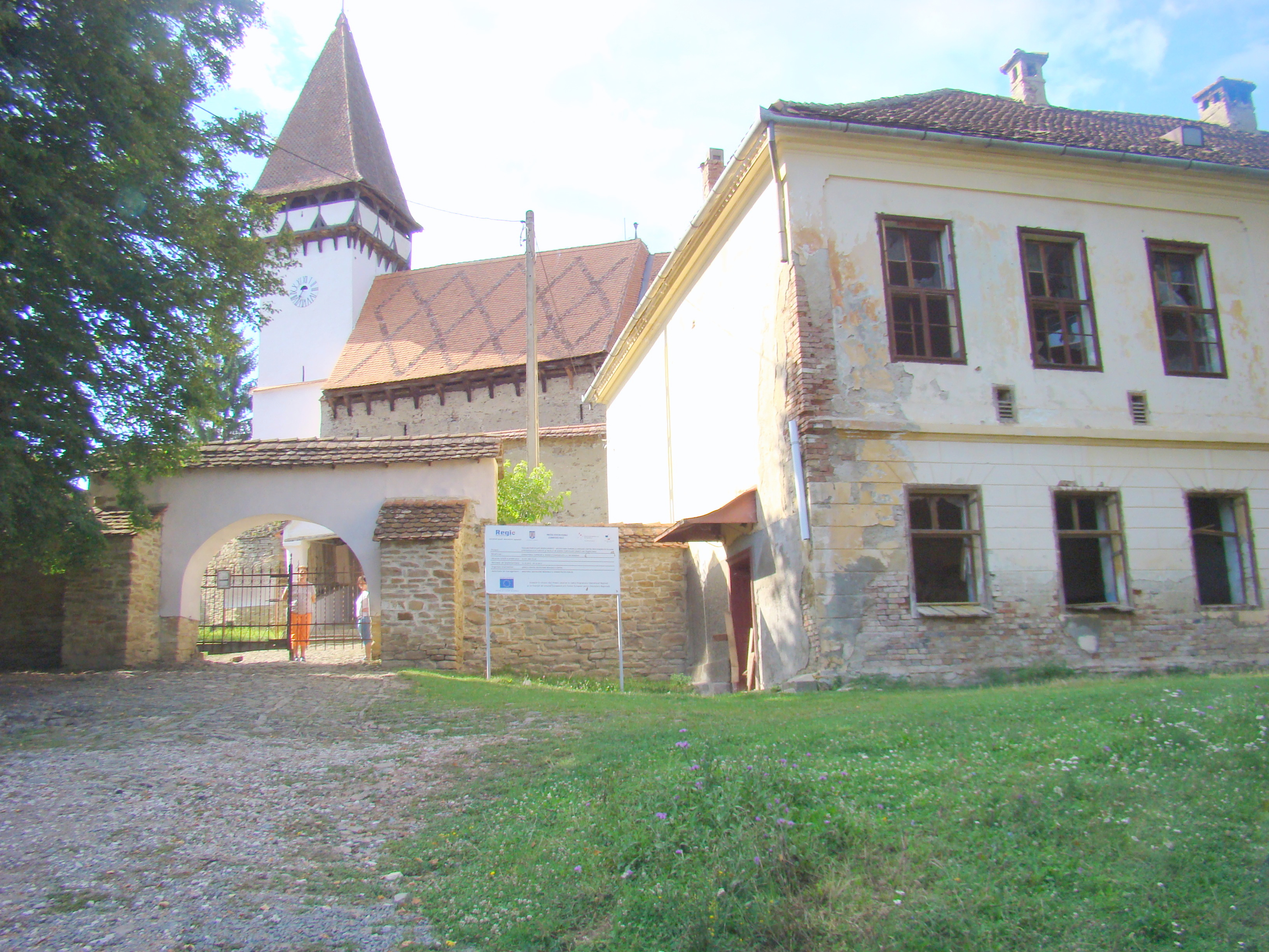 Fortified church in Meșendorf, Brașov County, Romania